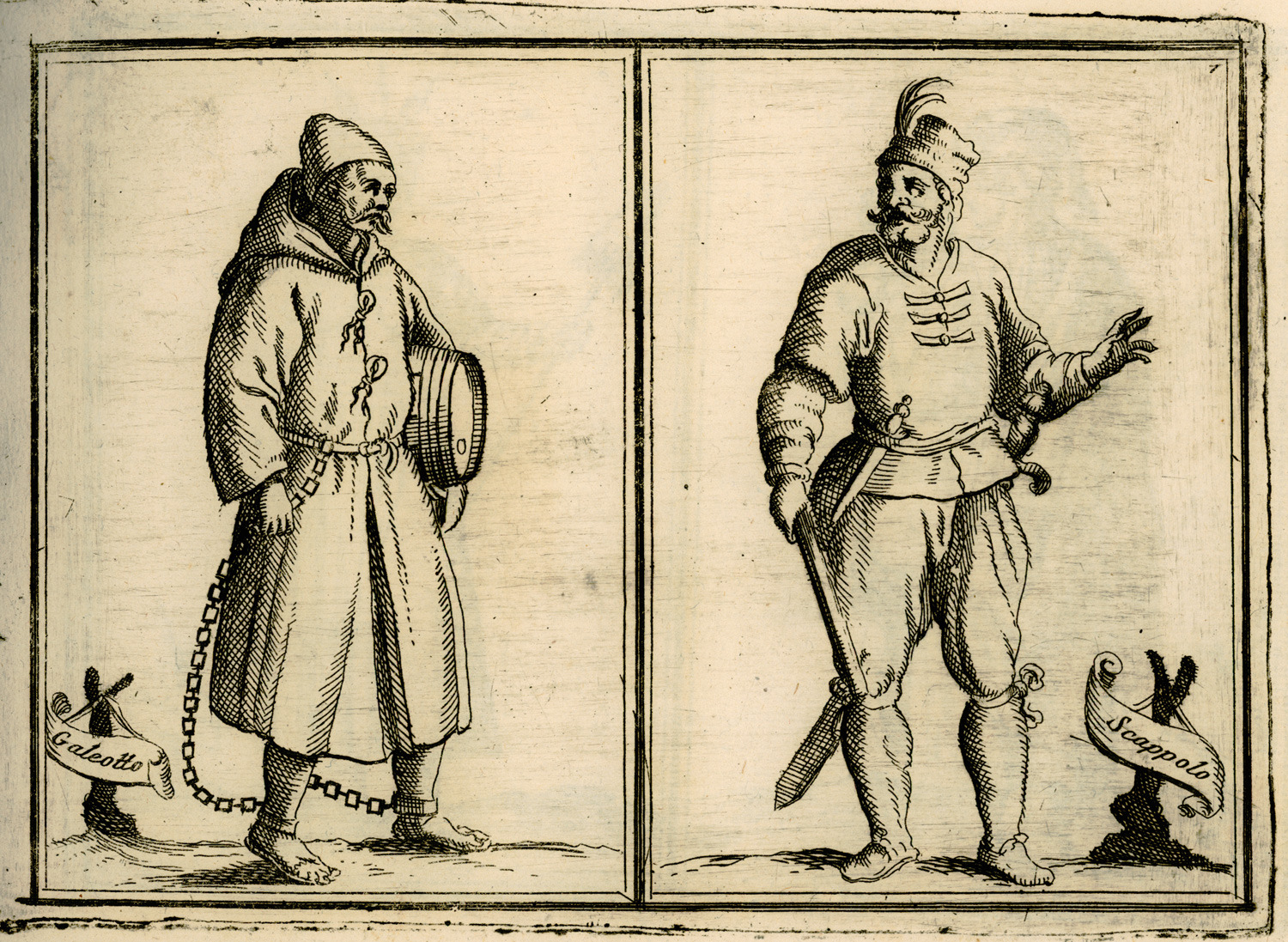 Vincenzo Coronelli - Repubblica di Venezia p. IV. Citta, Fortezze, ed altri Luoghi principali dell' Albania, Epiro e Livadia, e particolarmente i posseduti da Veneti descritti e delineati dal p. Coronelli, Venice, 1688.